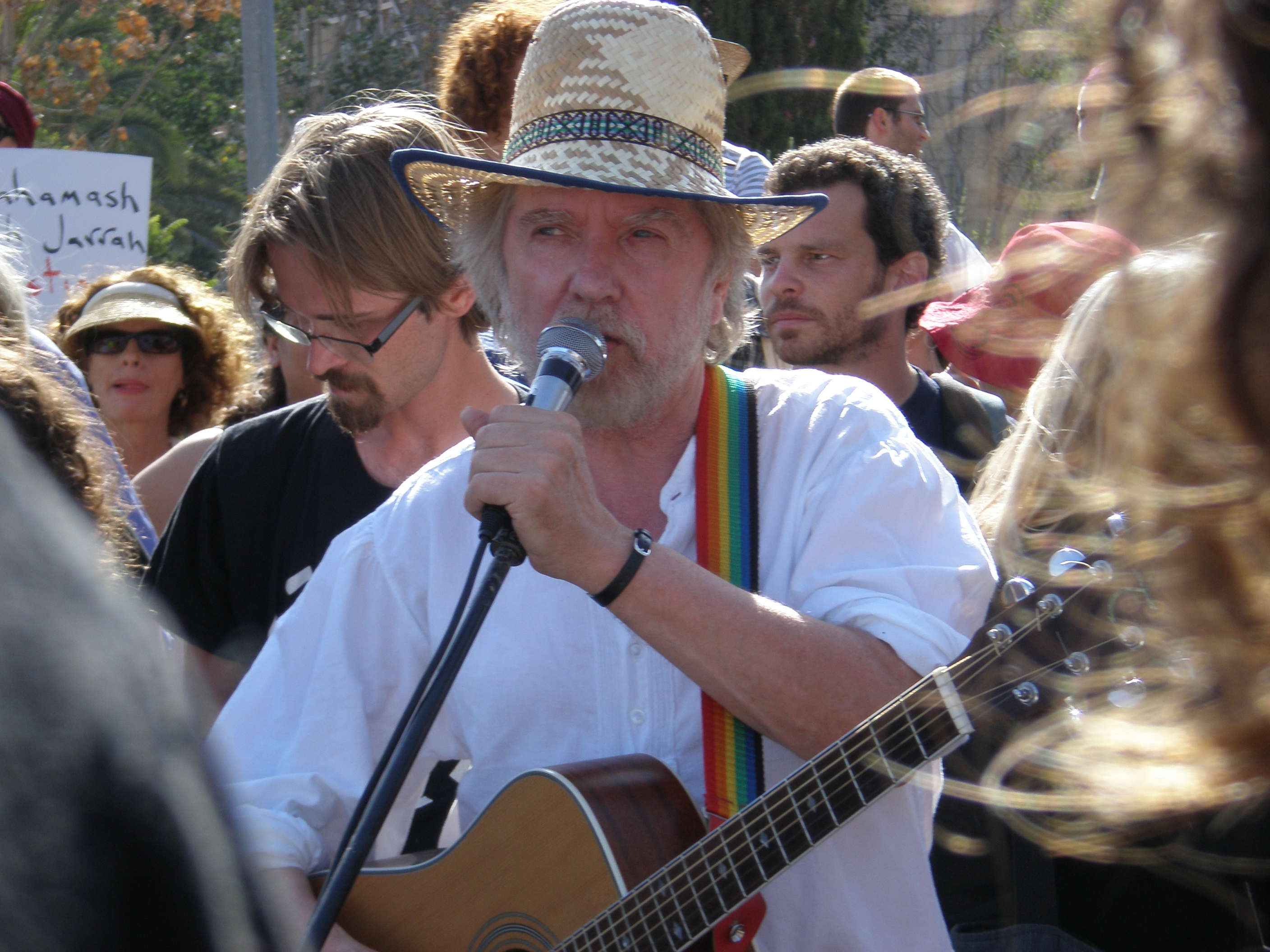 Irish folk singer Tommy Sands performes in front of a crowd of hundreds of Israelis and Palestinians who came to the Sheikh Jarrah neighbourhood in East Jerusalem for the weekly Friday demonstration.